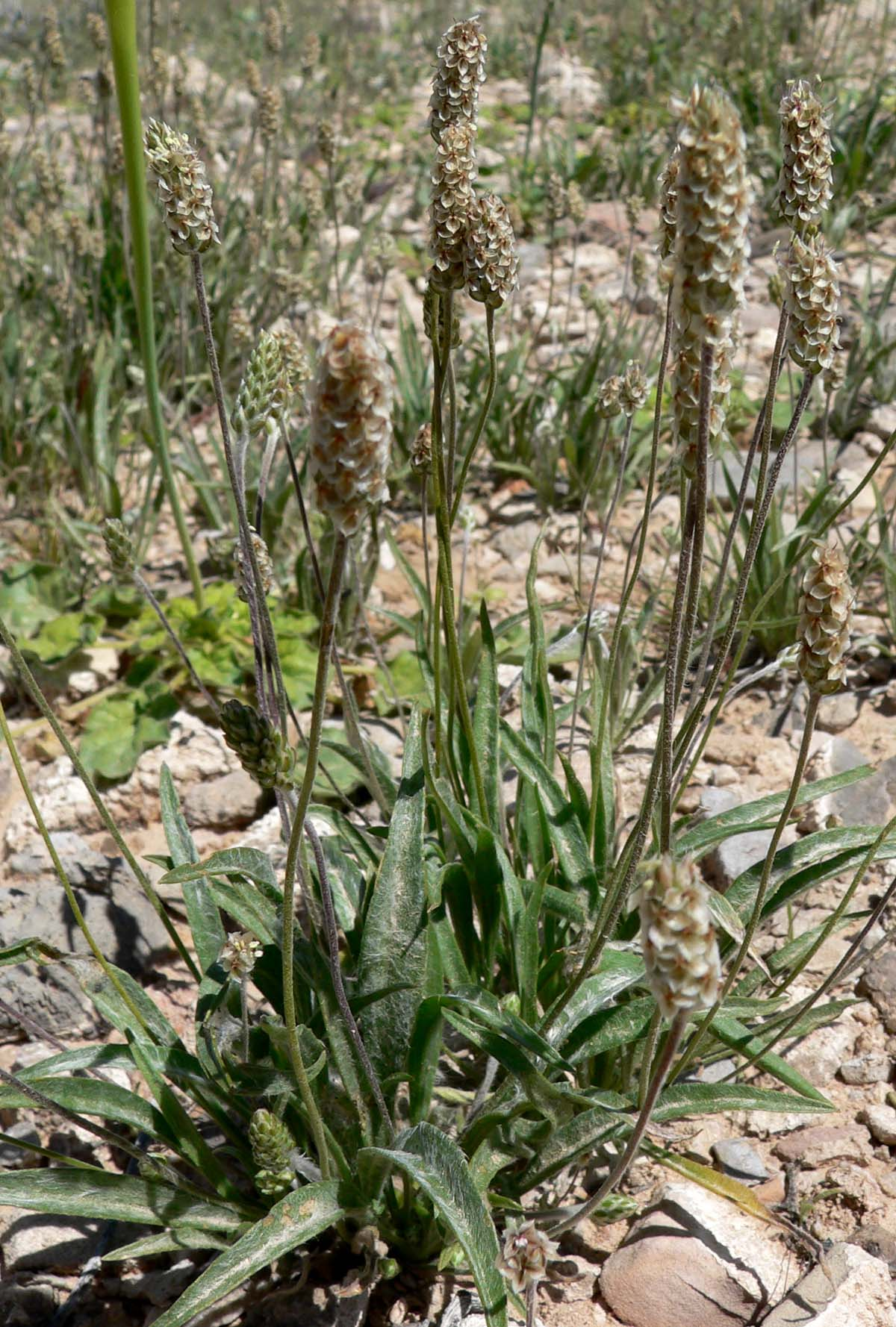 Photo of Plantago ovata (desert plantain) on southwestern slope of Frenchman Mountain east of Las Vegas, Nevada